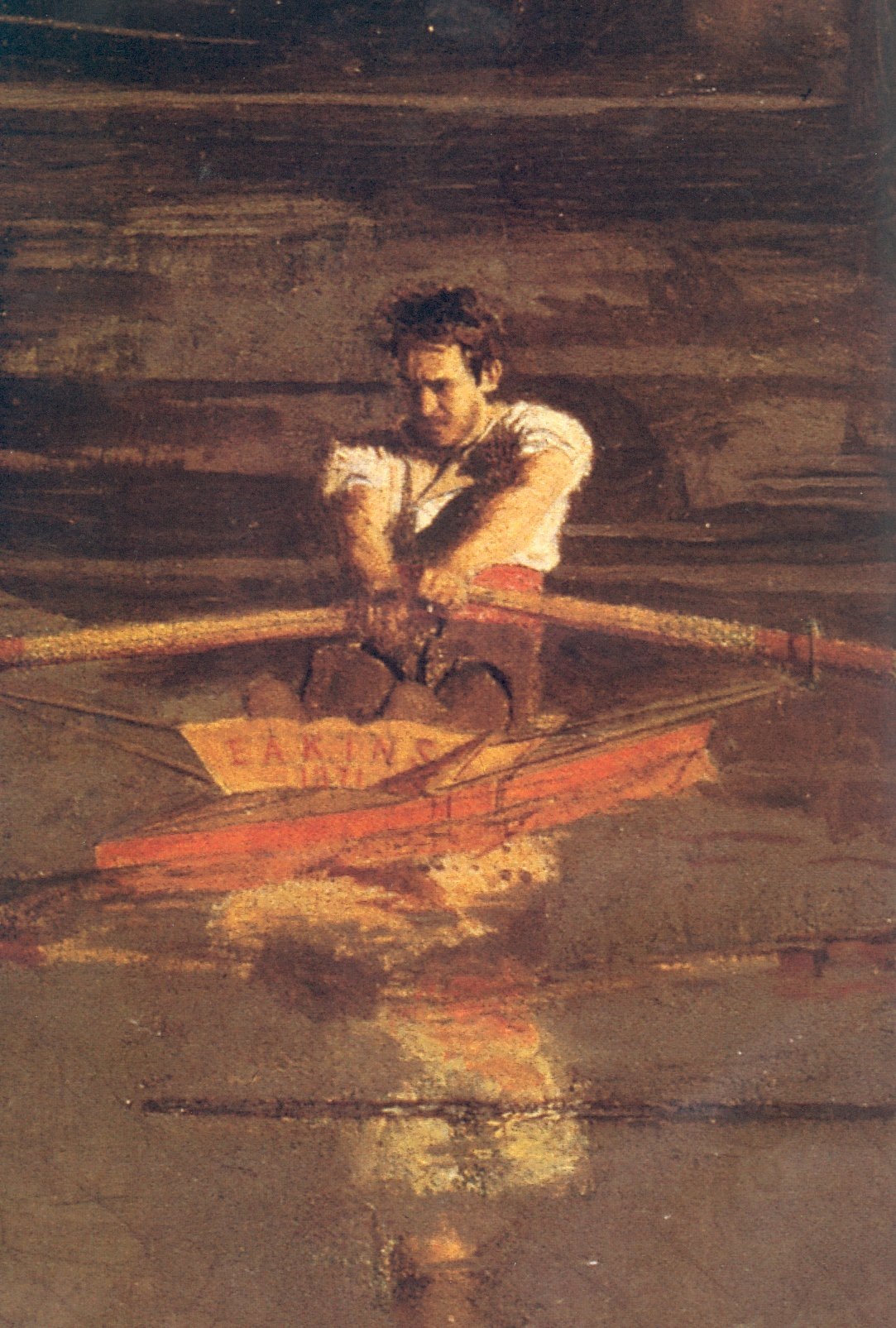 Detail from Max Schmitt in a Single Scull by Thomas Eakins